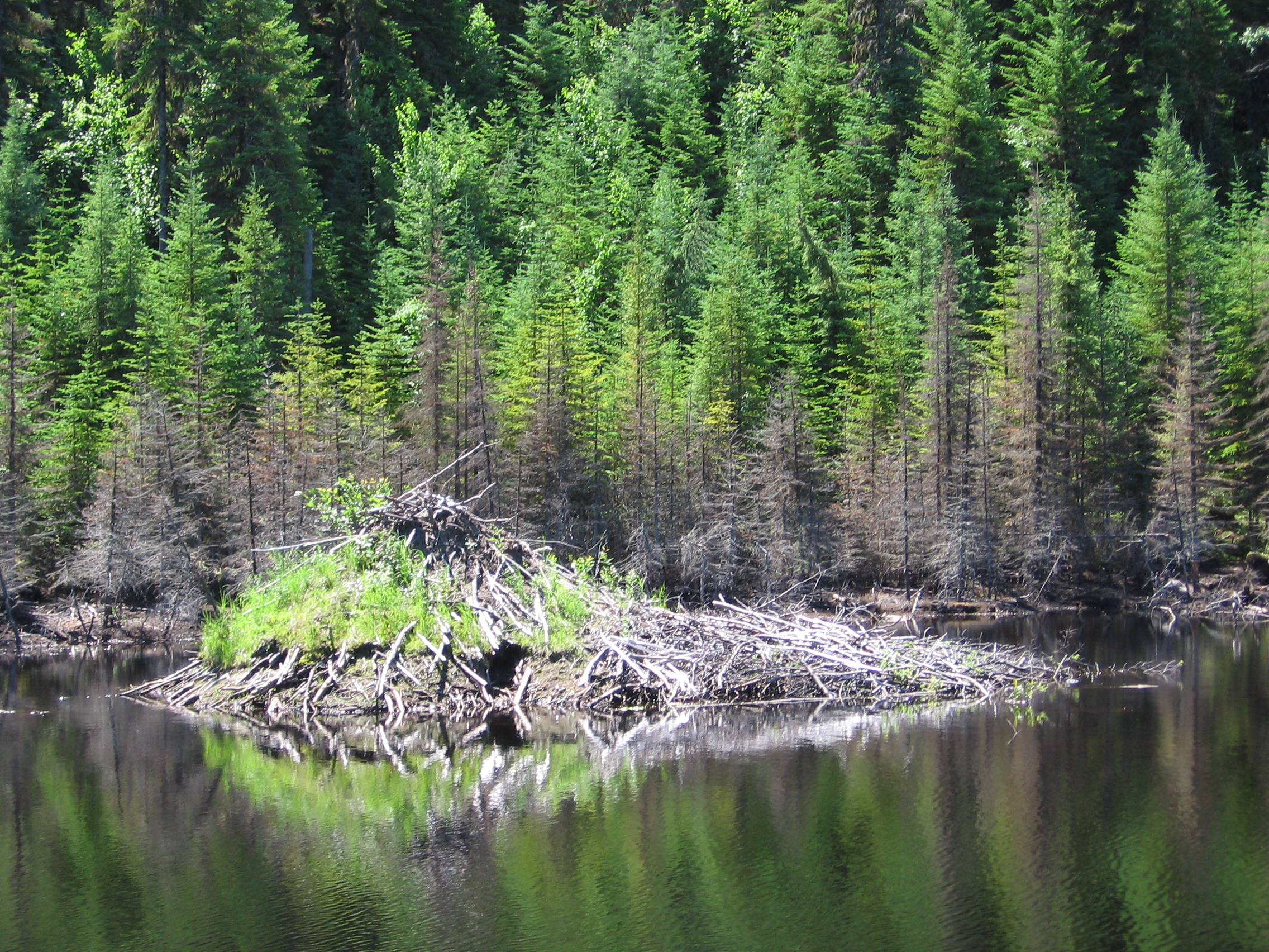 Beaver lodge north of Saguenay, Quebec